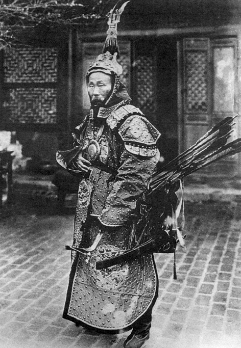 Su Yuanchun, 1844-1898, a famous general in the late Qing dynasty. He played an important role in Sino-French War on China-Vietnam border, fending off French invasion forces.